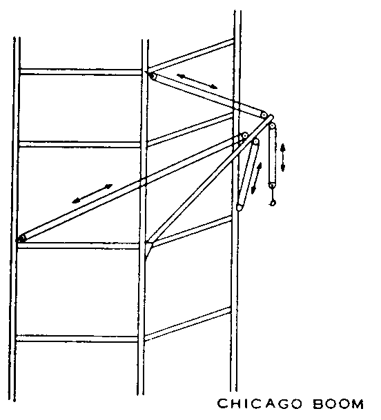 "Chicago boom derrick" means a boom which is attached to a structure, an outside upright member of the structure serving as the mast, and the boom being stepped in a fixed socket clamped to the upright. The derrick is complete with load, boom, and boom point swing line falls.